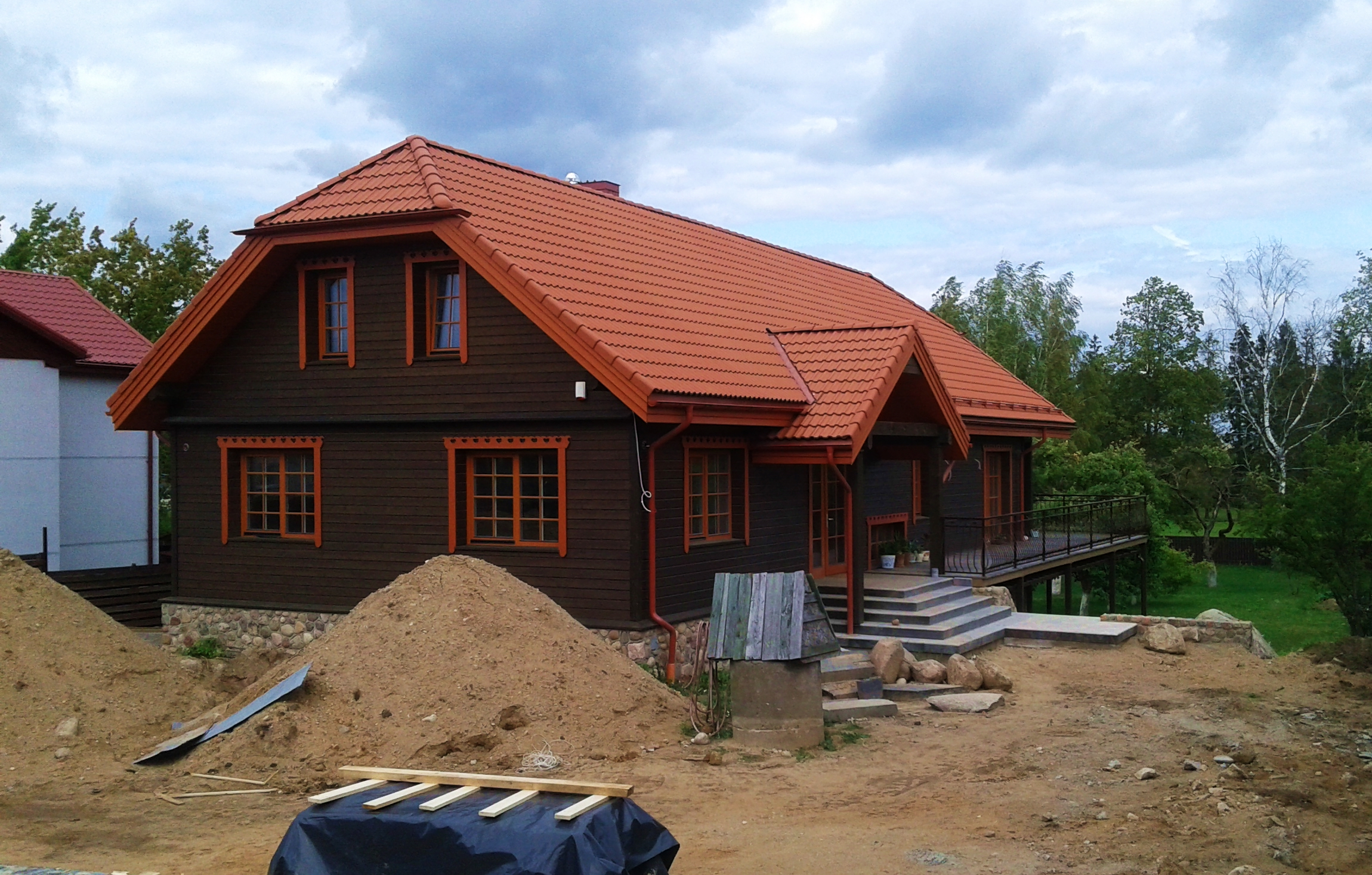 Reconstruction of an old house in Naujoji Vilnia